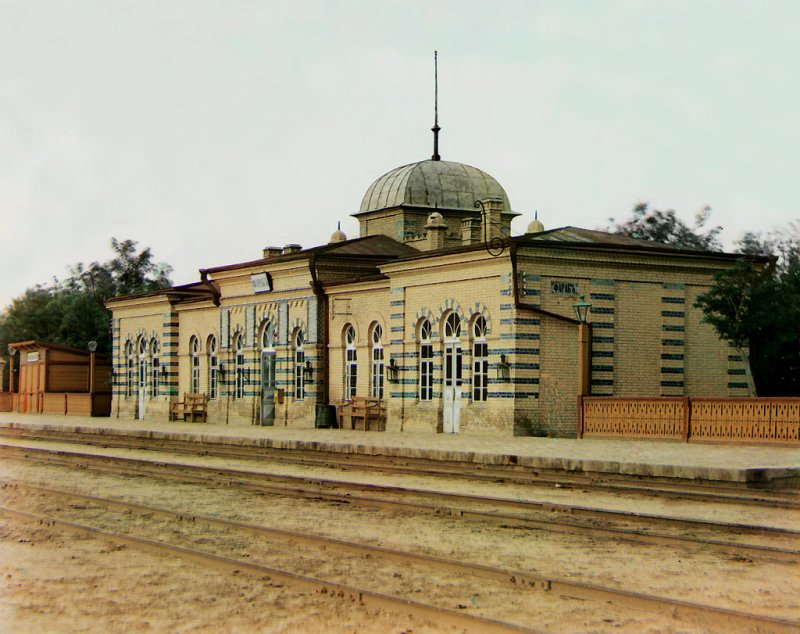 Early color photograph from Russia, created by Sergei Mikhailovich Prokudin-Gorskii as part of his work to document the Russian Empire from 1904 to 1916. Train station Farab, Turkmenistan.